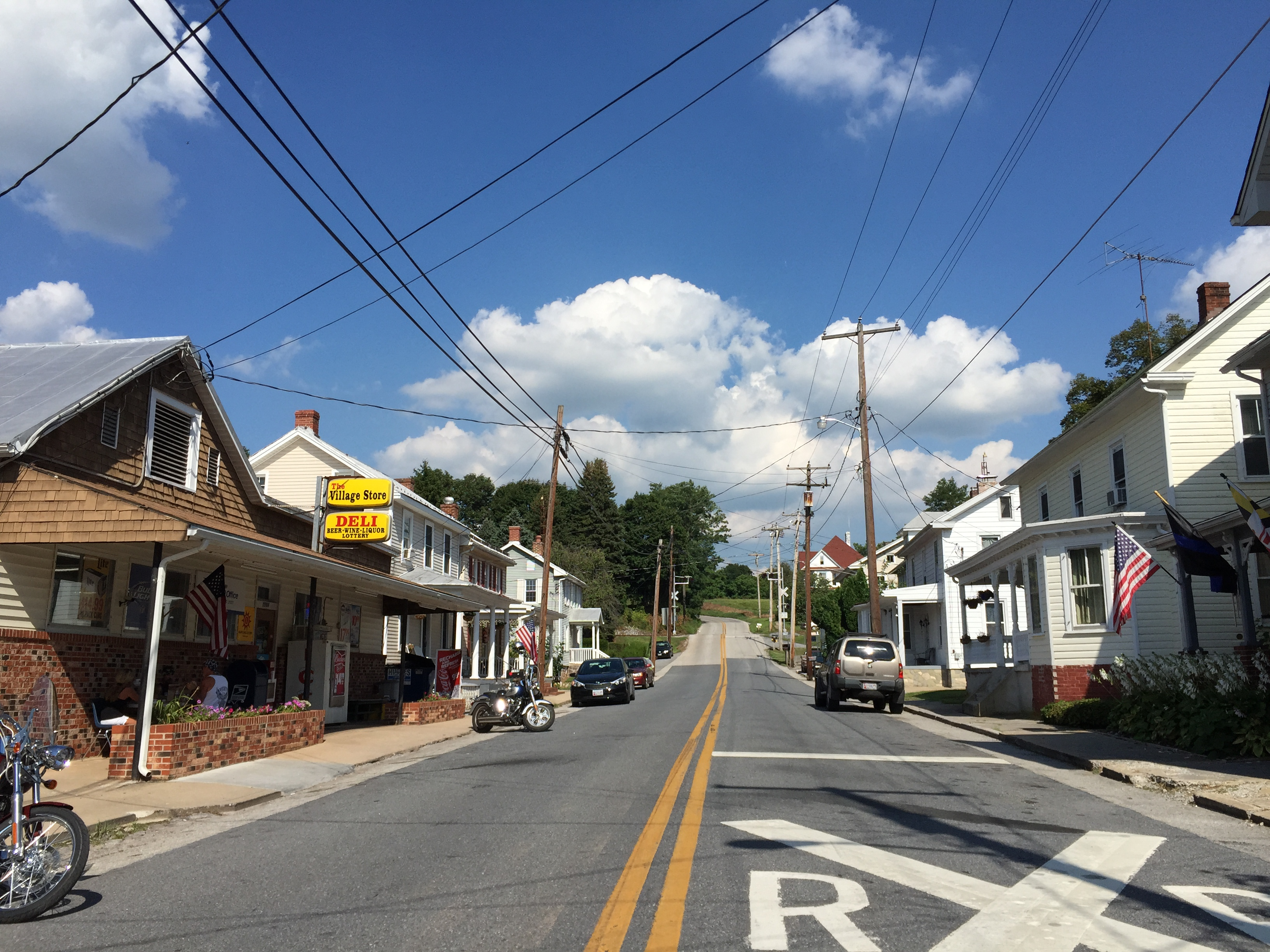 View east along Maryland State Route 77 (Middleburg Road) between Keysville Road and Circle Drive in Detour, Carroll County, Maryland